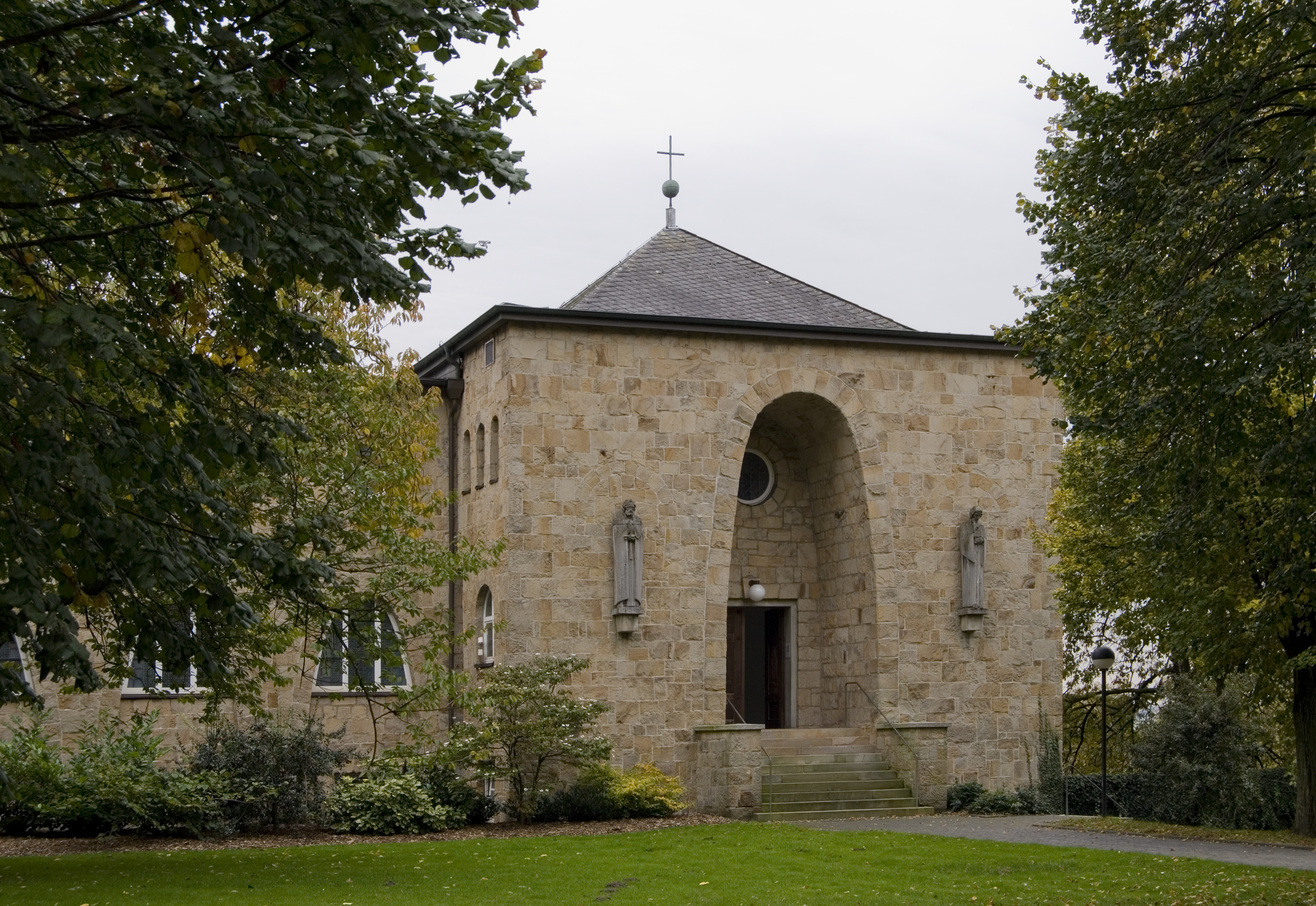 Gerleve Monastery near Billerbeck in North Rhine-Westphalia, Germany This photograph was taken with a Nikon D3000